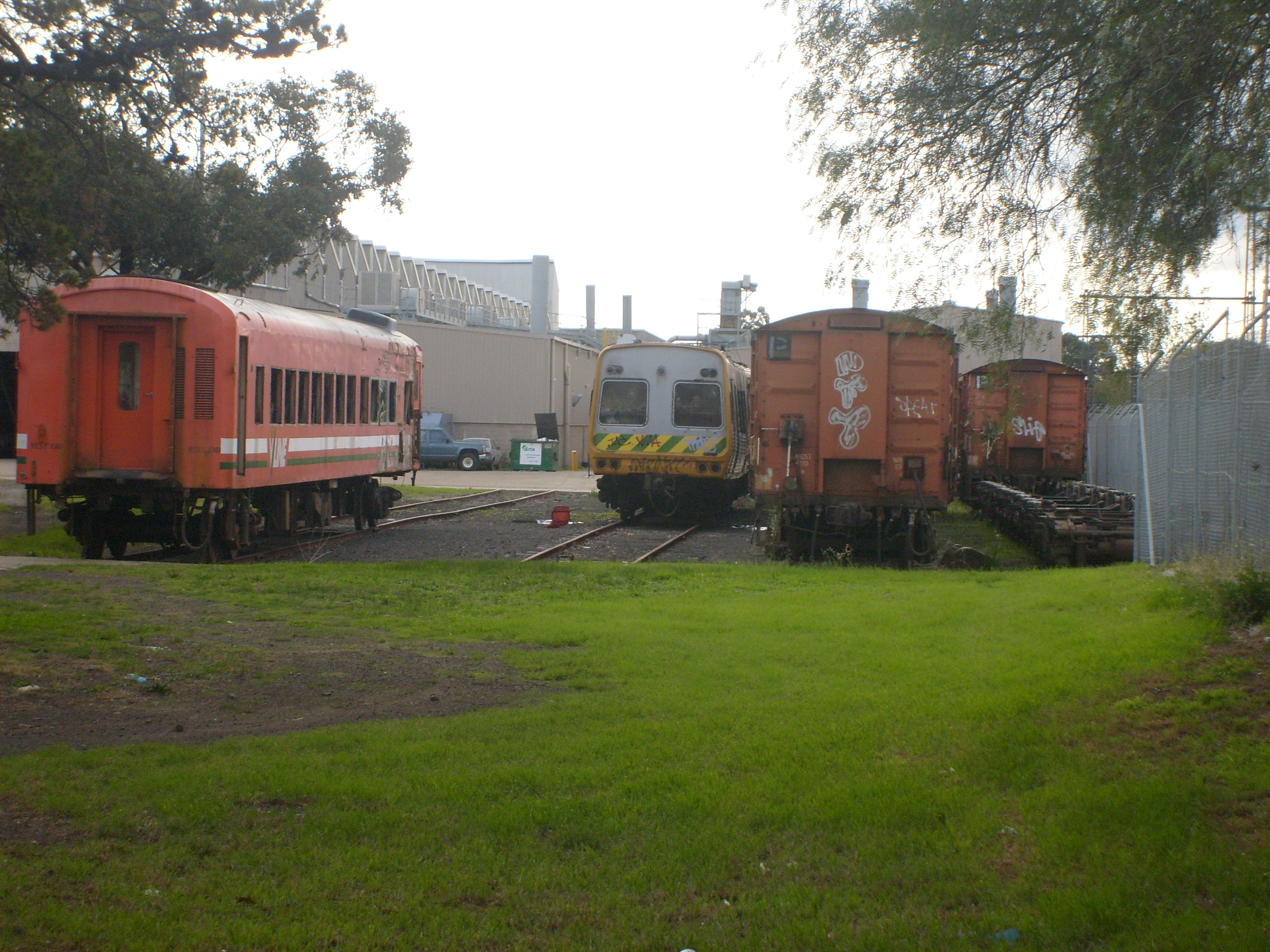 The south end of Newport workshops, near Nth Williamstown Station